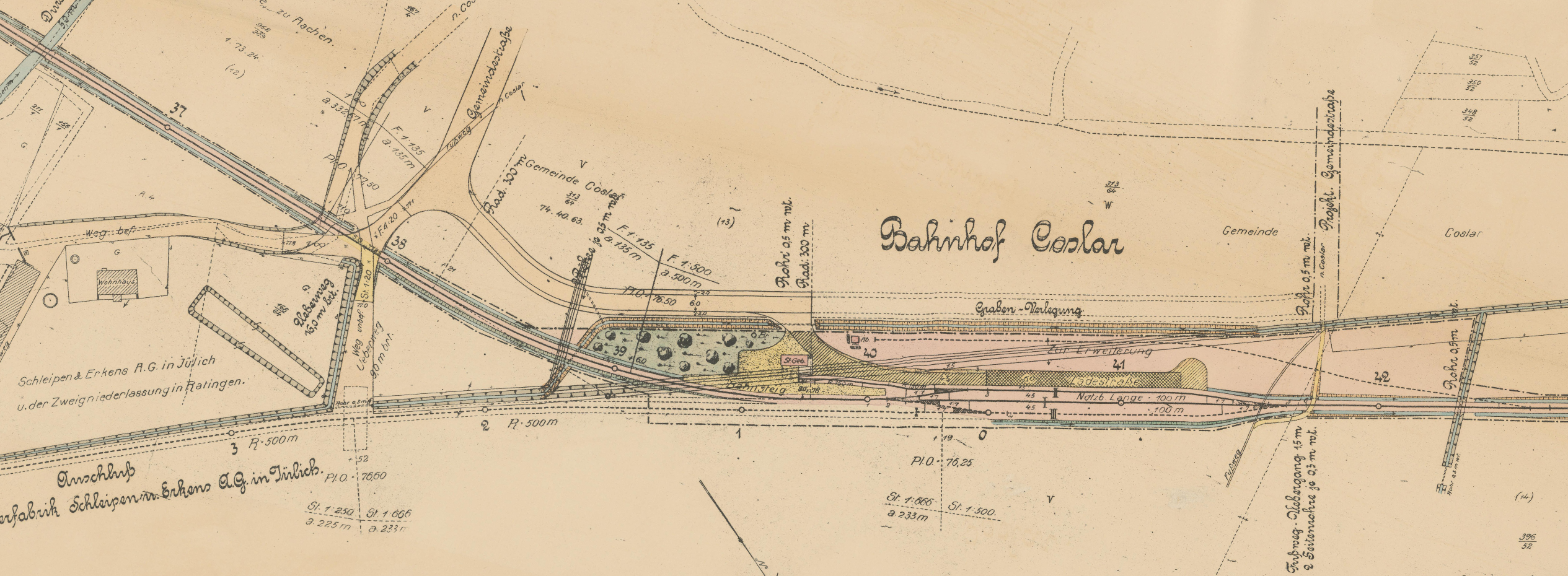 Plan of Koslar railway station of the Jülicher Kreisbahn 1911